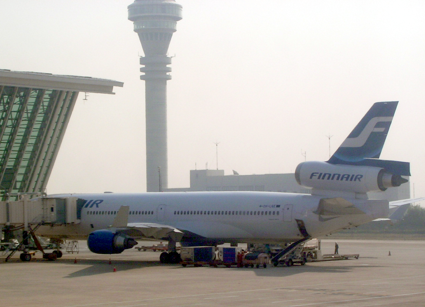 Finnair MD-11 aircraft (OH-LGE) at Shanghai Pudong International Airport in China